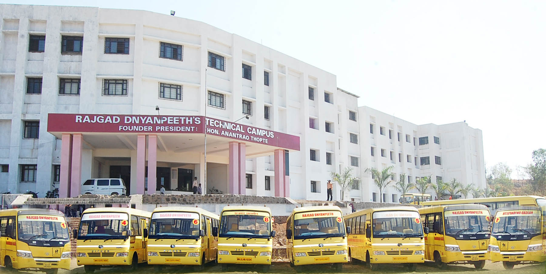 Front view of Shree Chhatrapati Shivajiraje College of Engineering.